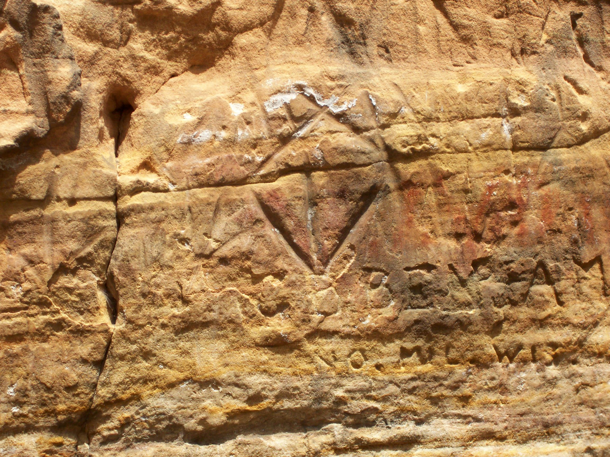 Looking north at Roche-a-Cri Petroglyphs at the Roche-a-Cri State Park north of Friendship, Wisconsin, USA. The petroglyph site is a registered historic place.